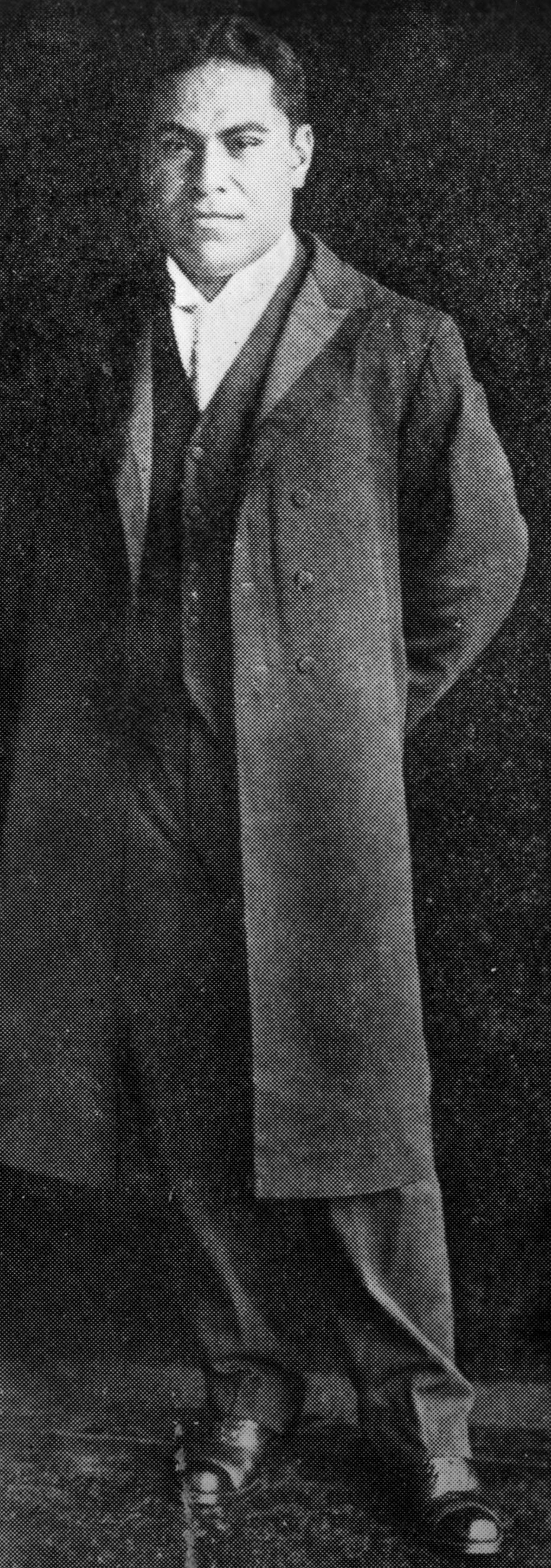 Queen Sālote Tupou III of Tonga, and her consort Prince Viliami Tungī Mailefihi.